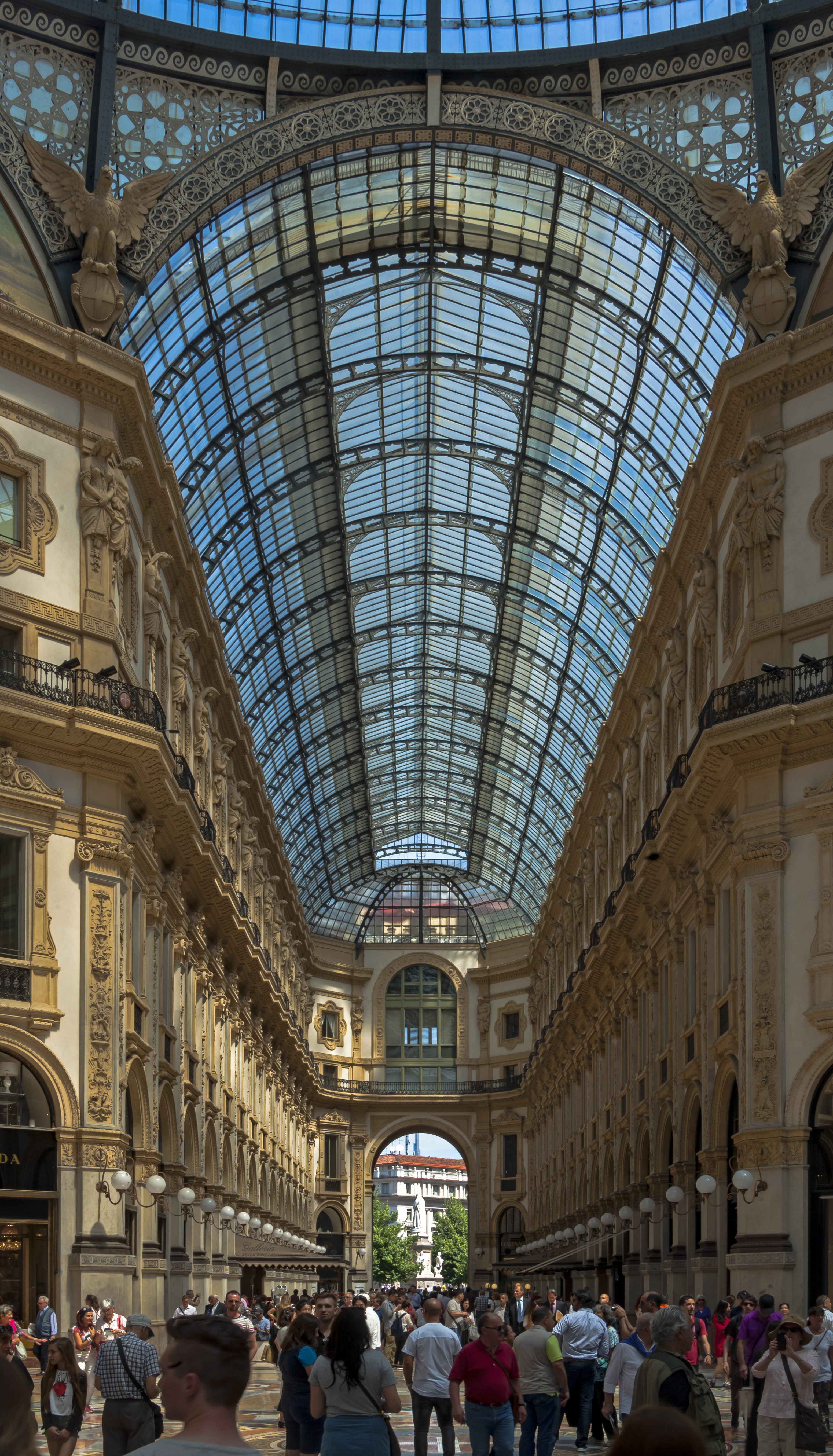 Looking north towards the Piazza della Scala from the center of the Galleria Vittorio Emanuele II, Milan.